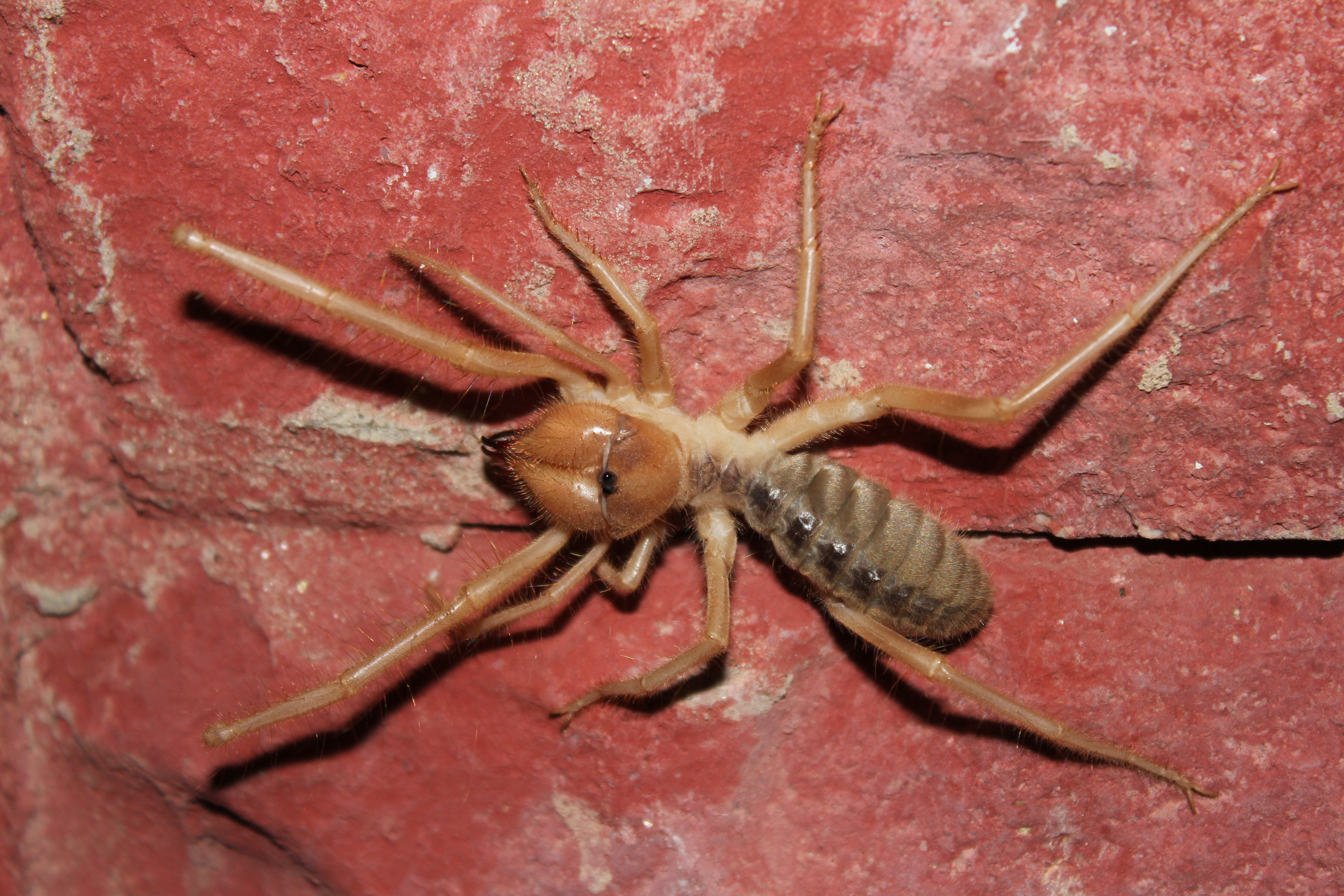 I shot this beautiful, yet scary solifugae in Adana, Turkey. It was shot during a picnic in Yumurtalik district in July, 2011.